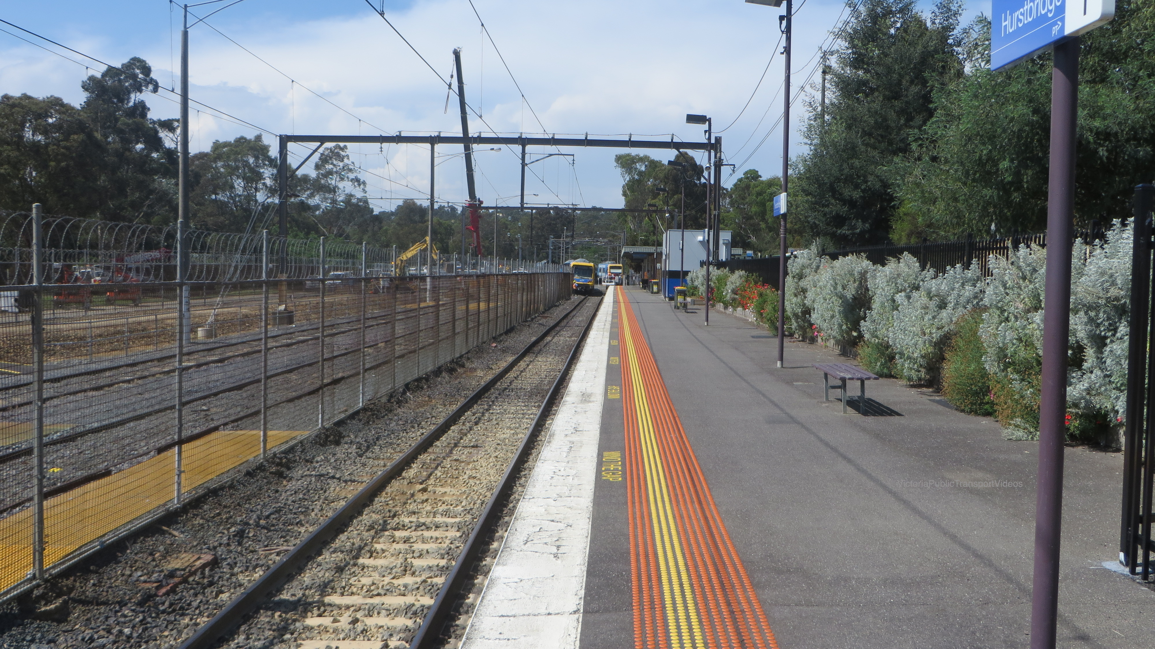 Northbound view in November 2015 after derailment of a x'trapolis train